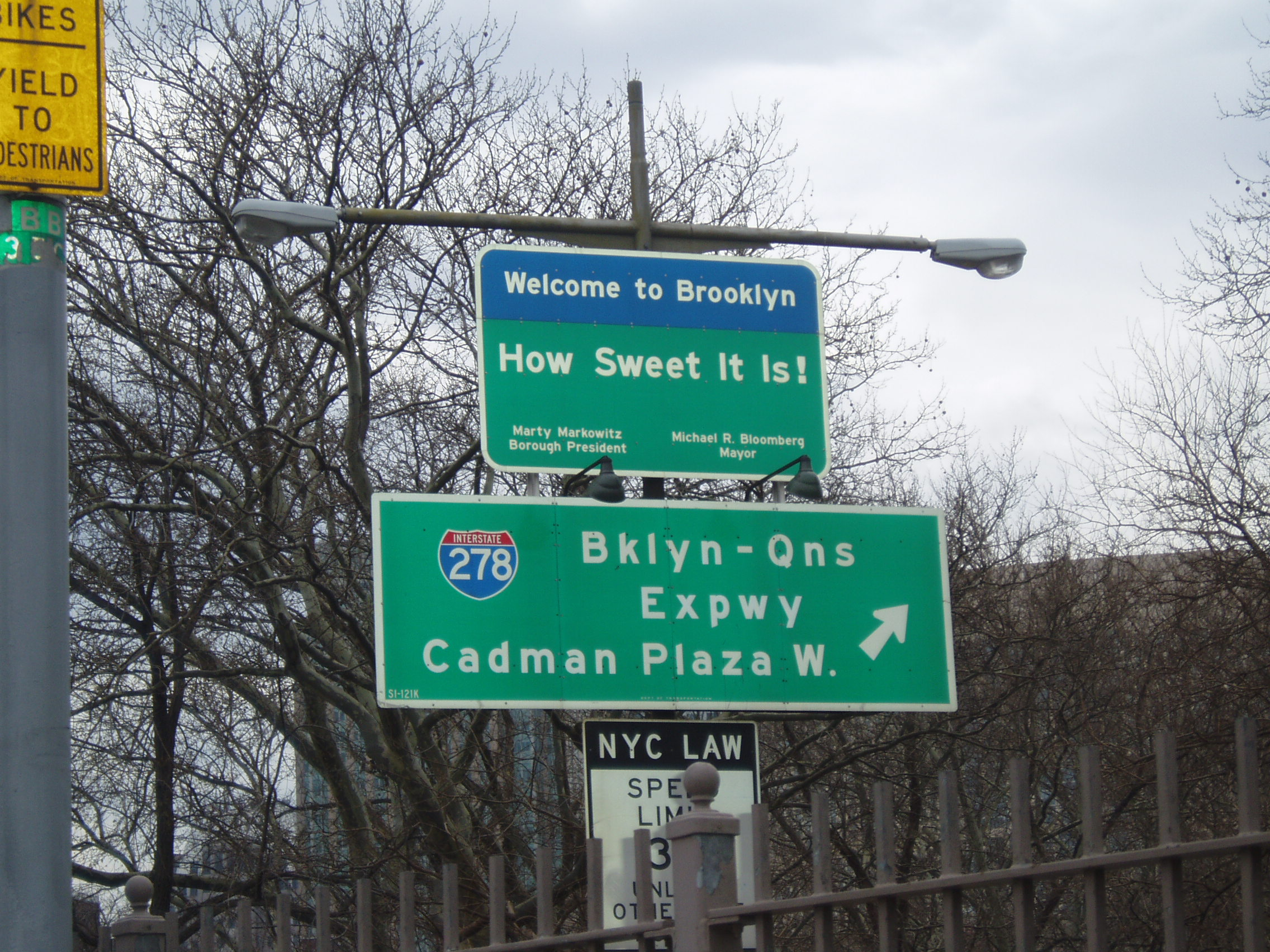 Sign by the Brooklyn Bridge, welcoming drivers to Brooklyn.